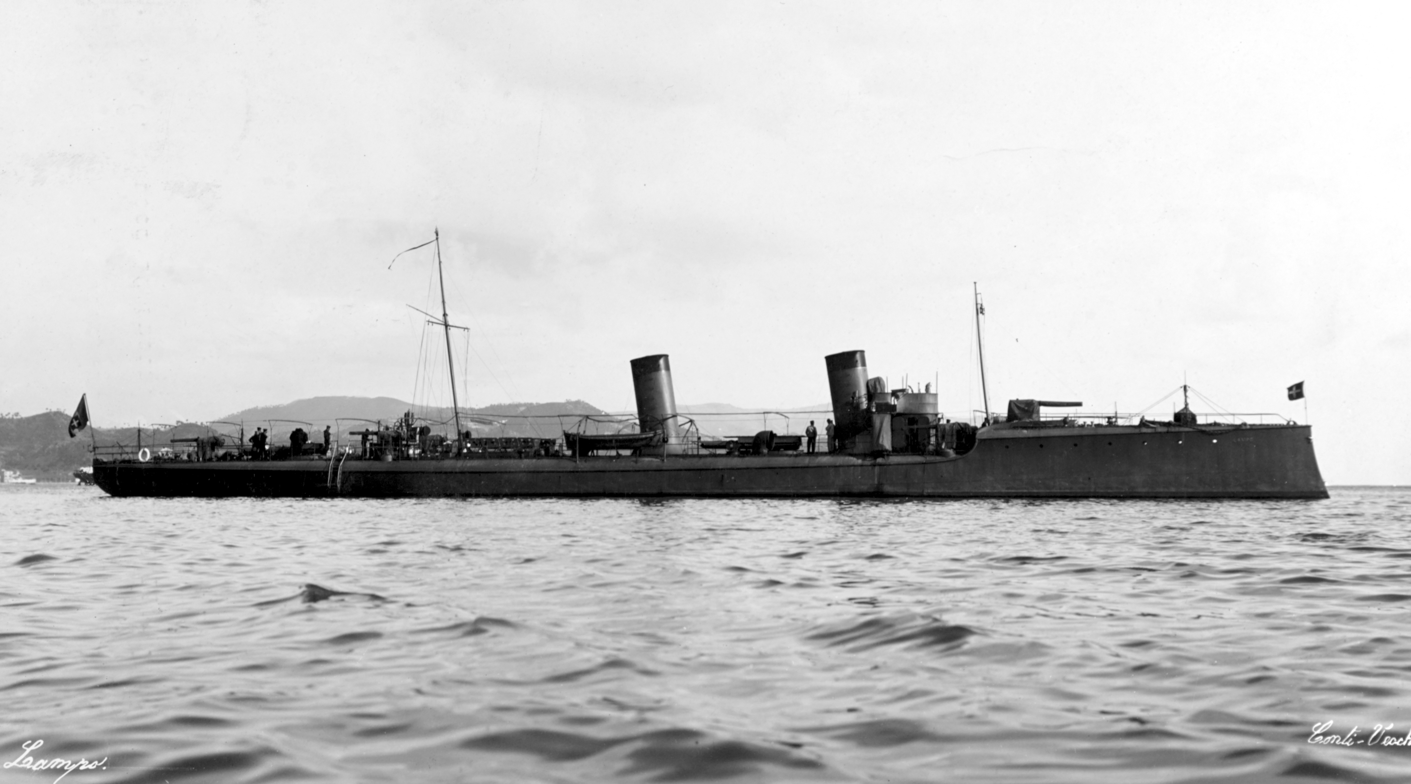 Title: LAMPO (Italian Destroyer) Caption: In commission from 1899 to 1920. Photographed in March 1901 in Spezia Harbor shortly after her arrival from F. Schichau's building yard at Elbing, Germany.